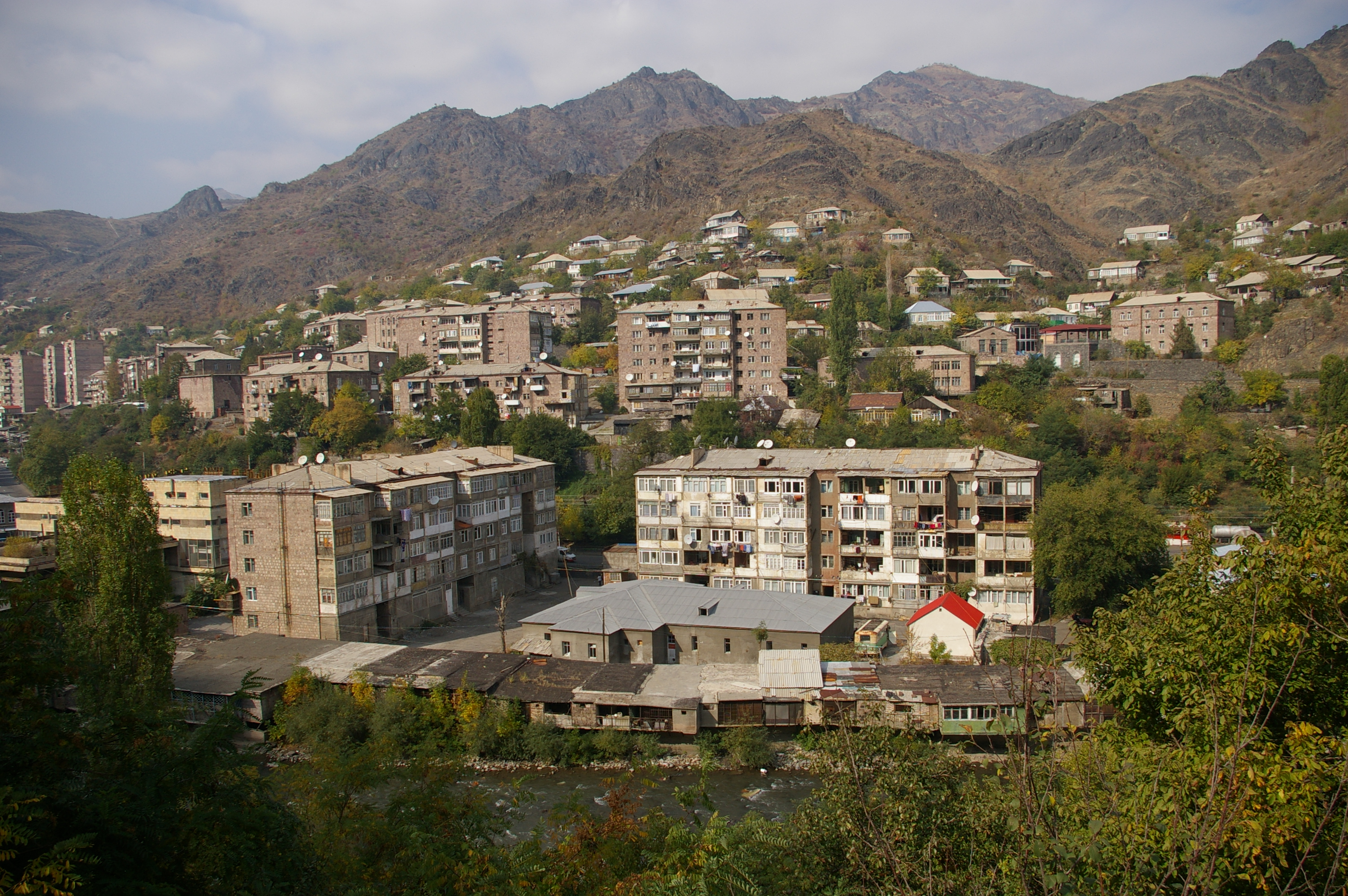 Alaverdi general view